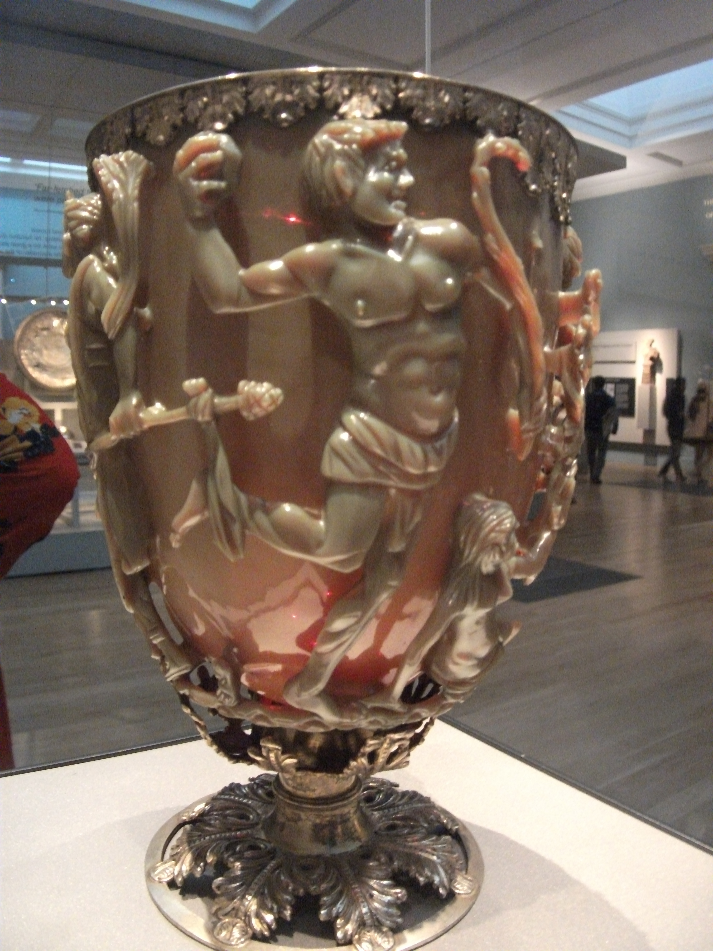 British Museum, Room 41. New display from 2014